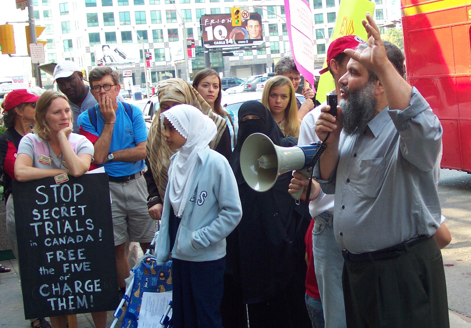 Christian Peacemaker Teams protesting at 277 Front Street, CSIS' Toronto Headquarters